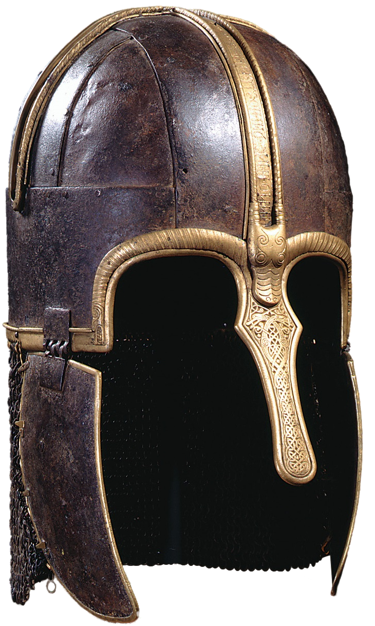 The 8th century Copperage (or York) helmet